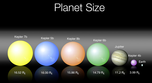 The size of Kepler's first five planet discoveries as compared with Jupiter and Earth in our own solar system. NASA's Kepler space telescope has discovered its first five new exoplanets, or planets beyond our solar system. Kepler's high sensitivity to both small and large planets enabled the discovery of the exoplanets, named Kepler 4b, 5b, 6b, 7b and 8b. The discoveries were announced Monday, Jan. 4, by the members of the Kepler science team during a news briefing at the American Astronomical Society meeting in Washington.